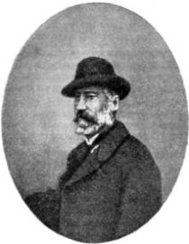 Russian composer and music critic Feofil Matveyevich Tolstoy 1!809-1881)